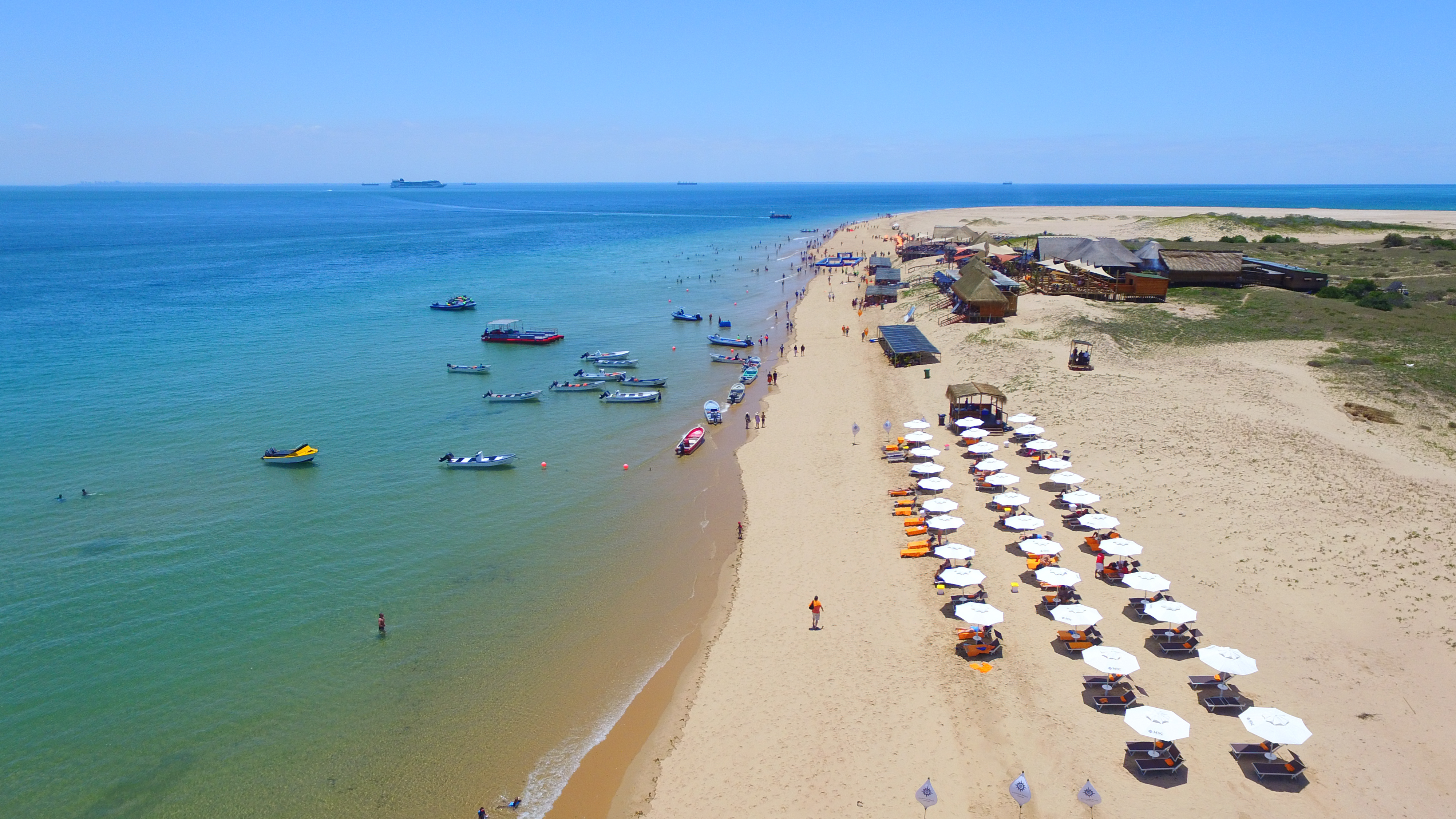 Portuguese Island - Set between the African coast and the Indian Ocean, Portuguese Island is a small, uninhabited island, 10km from Maputo Mozambique